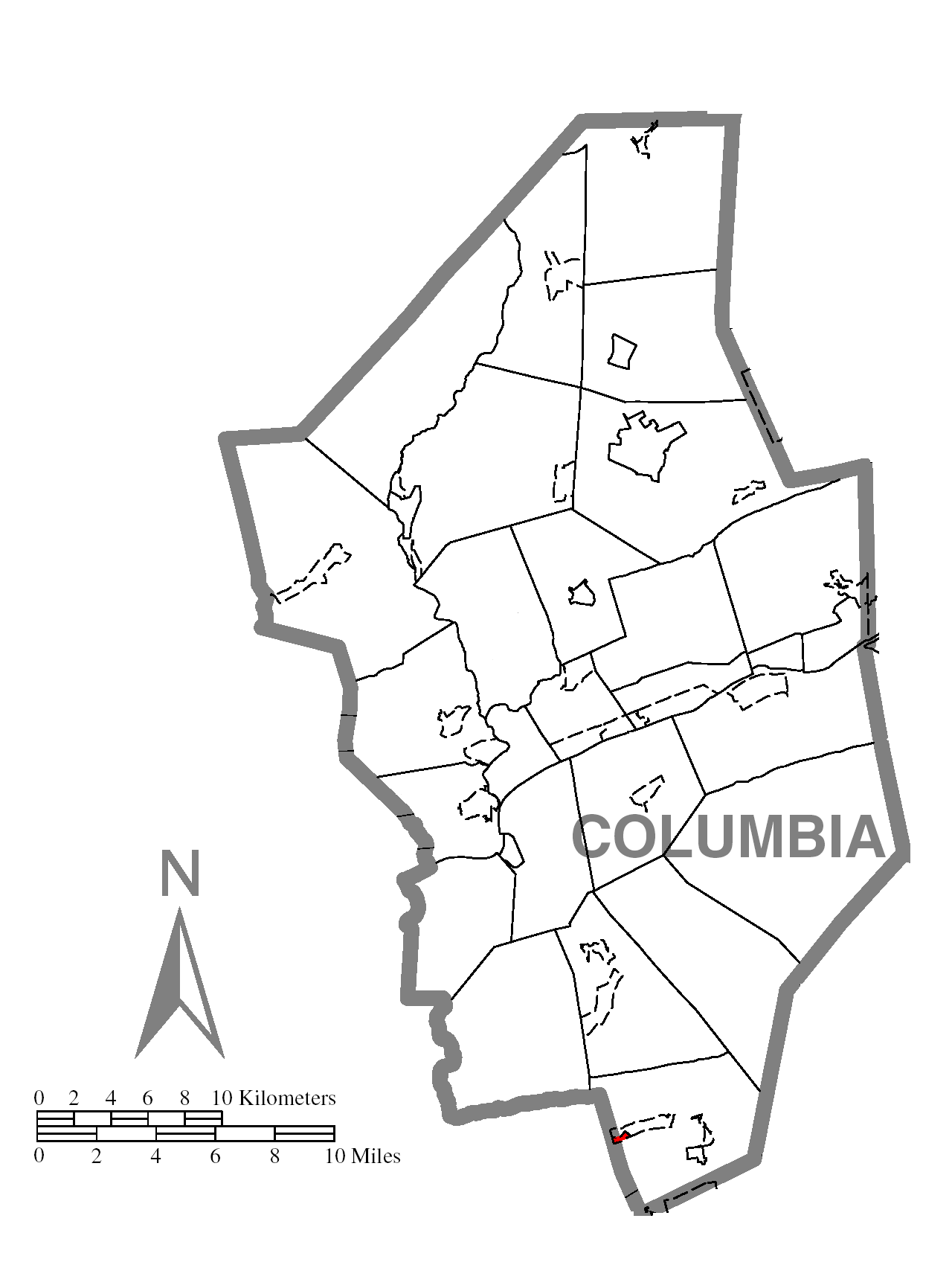 A map of Columbia County showing Wilburton Number One, Pennsylvania (alternate) highlighted on the map.